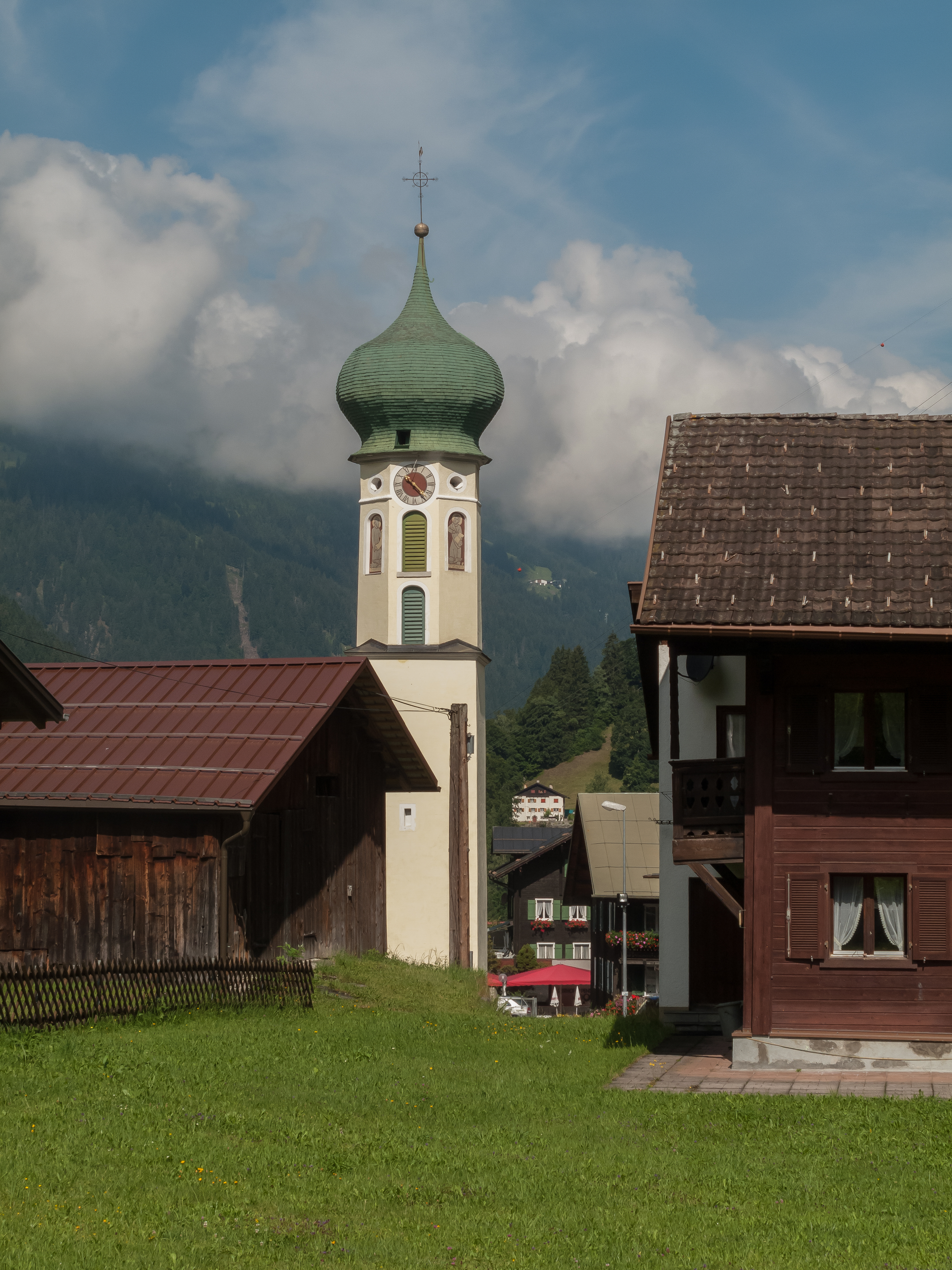 Partenen, toren van die Kuratienkirche heilige Martin in the street